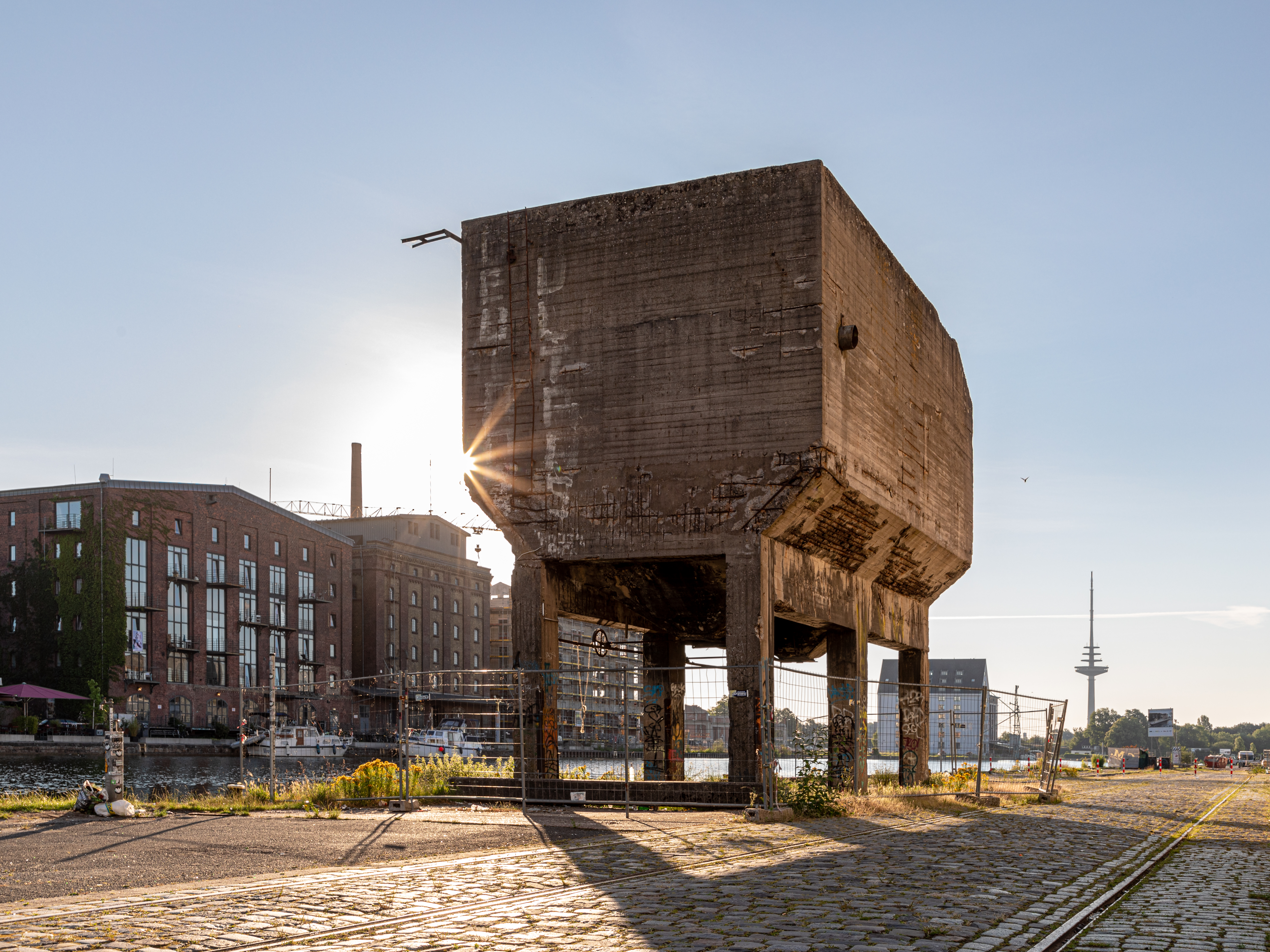 Former bulk bin (“Elephant”) in the port, Münster, North Rhine-Westphalia, Germany